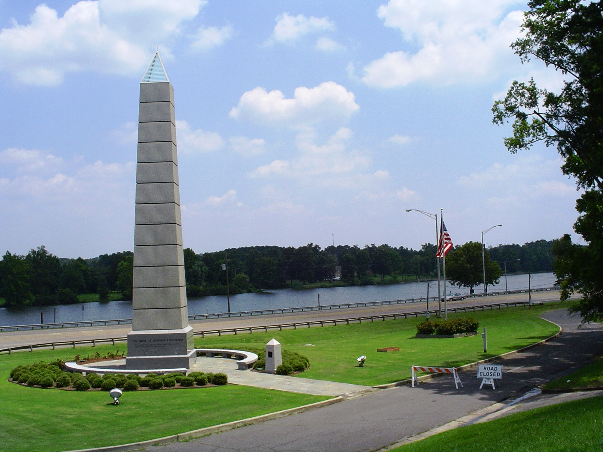 Prestinian took this picture in the summer of 2004. Gadsden, AL